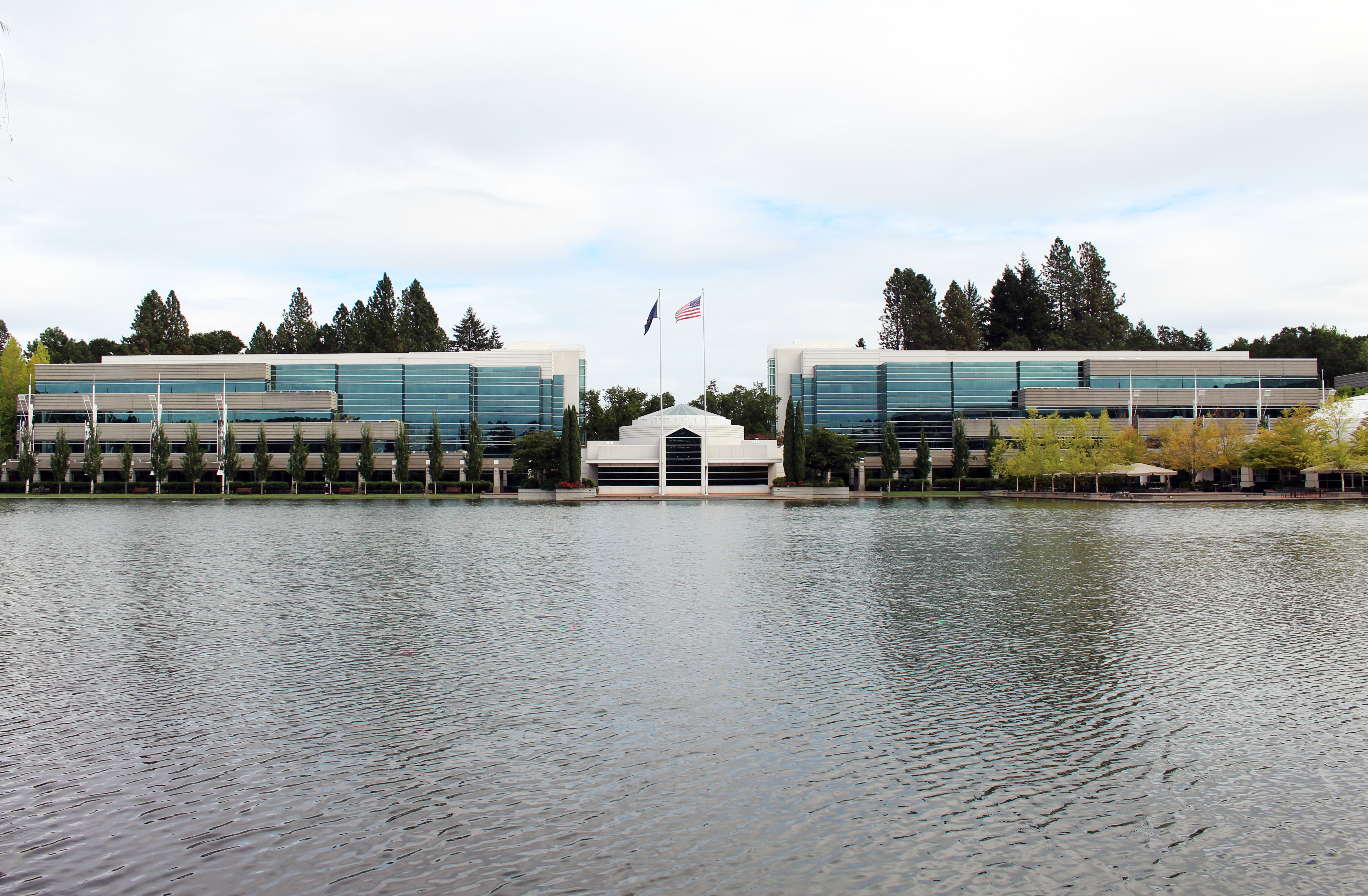 Nike World Headquarters in Beaverton, Oregon, home to Nike, Inc. Photographed by user Coolcaesar on September 9, 2017.